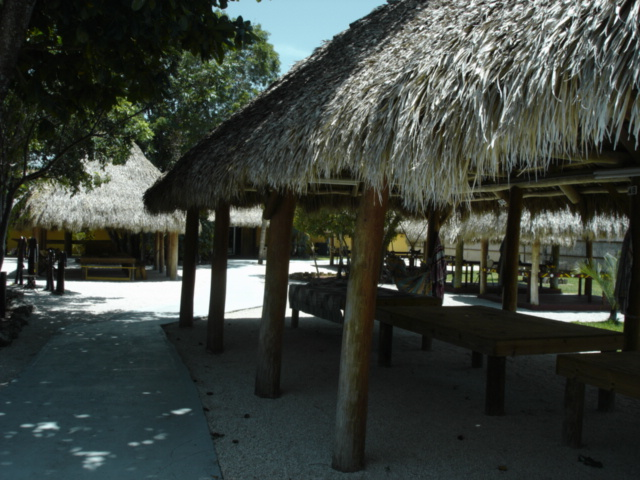 Miccusokee Indian Village